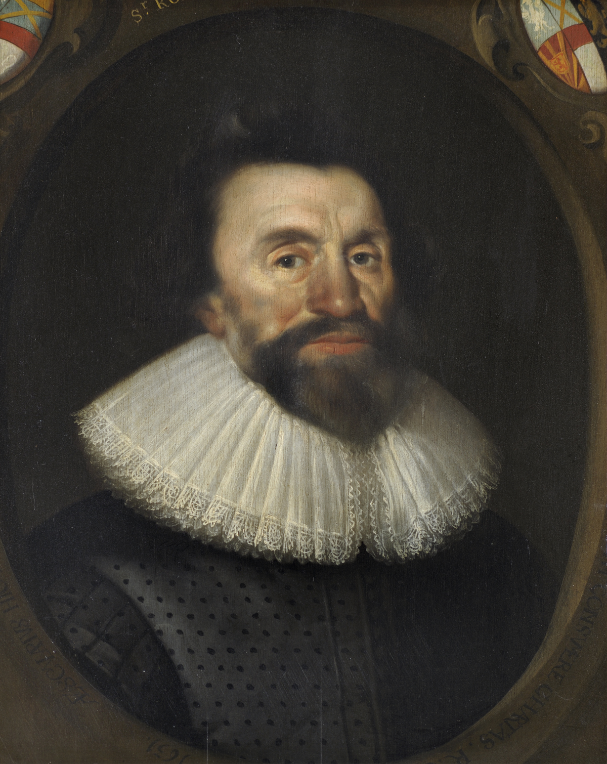 Robert Bruce Cotton (1571–1631), Antiquary and Politician